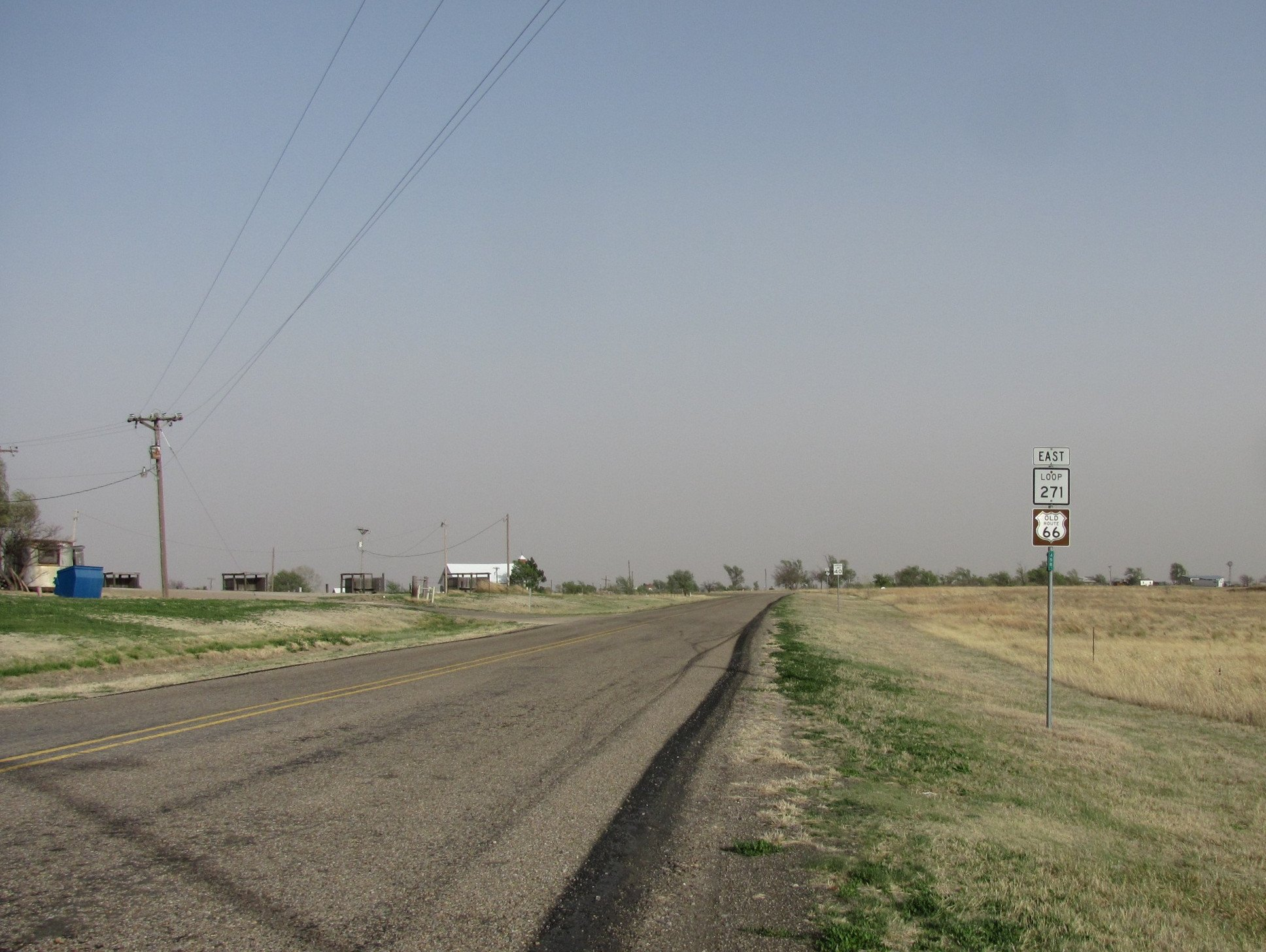 Texas State Highway Loop 271, Alanreed Texas